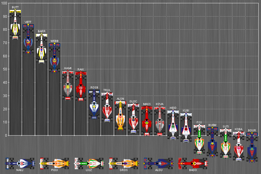 chart of final standings of 2009 Formula One season